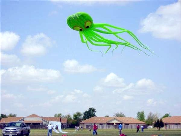 Octopus kite at the Clovis, New Mexico kite festival